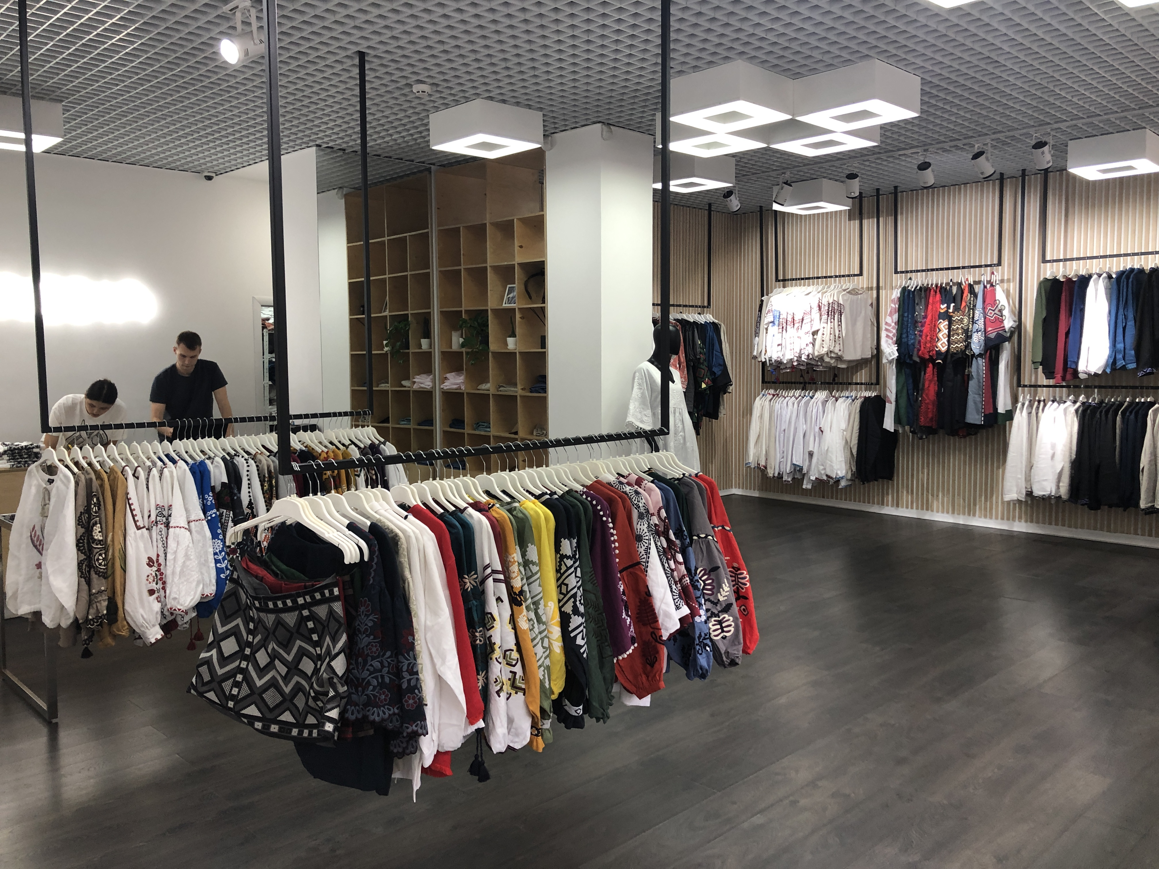 Etnodim